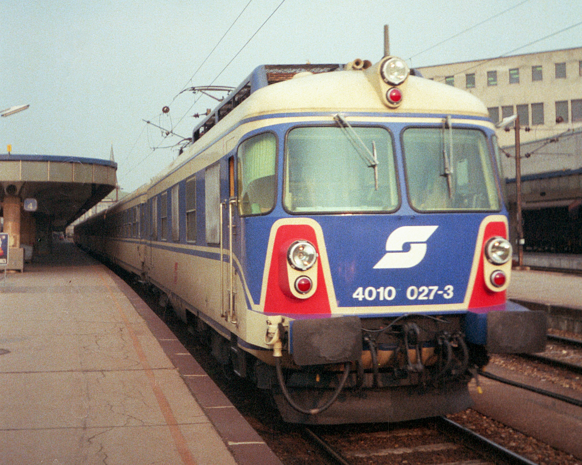 ÖBB 4010 027-3 in original livery at Wien Westbahnhof